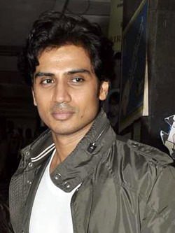 Aditi Rao Hydari and Shiv Pandit at Teacher’s day celebrations.